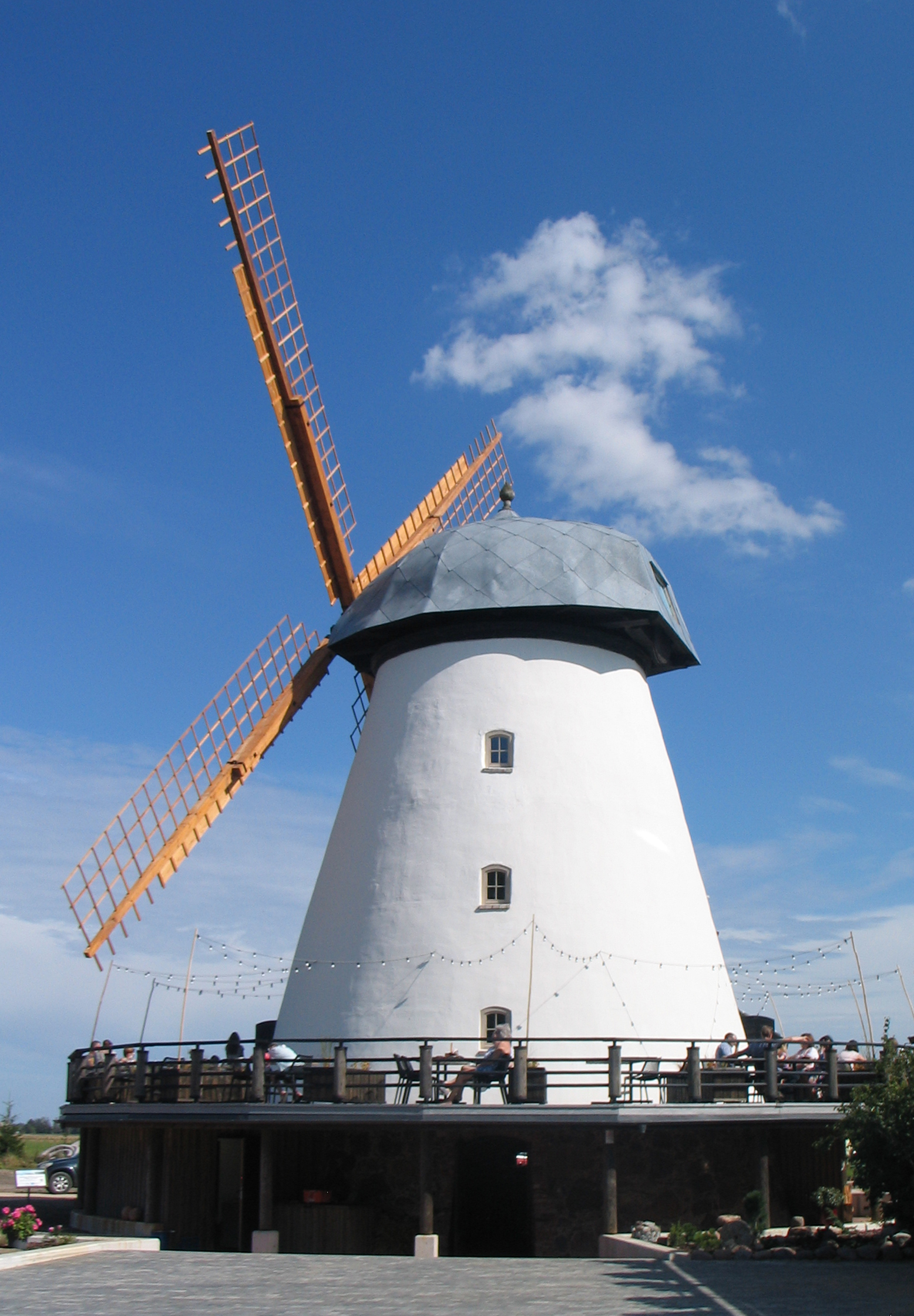 Pasiekste windmill turned restaurant